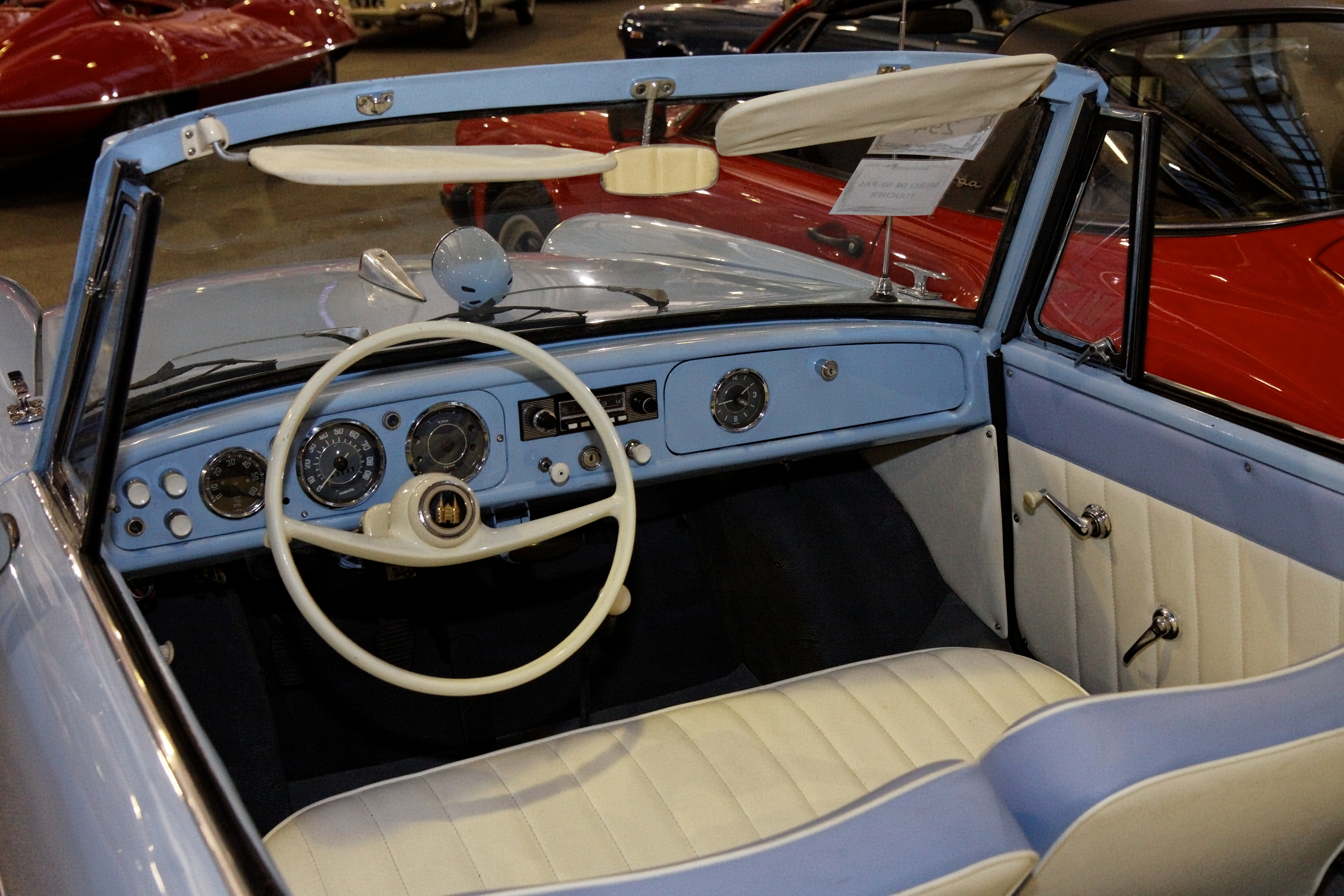 Amphicar 770